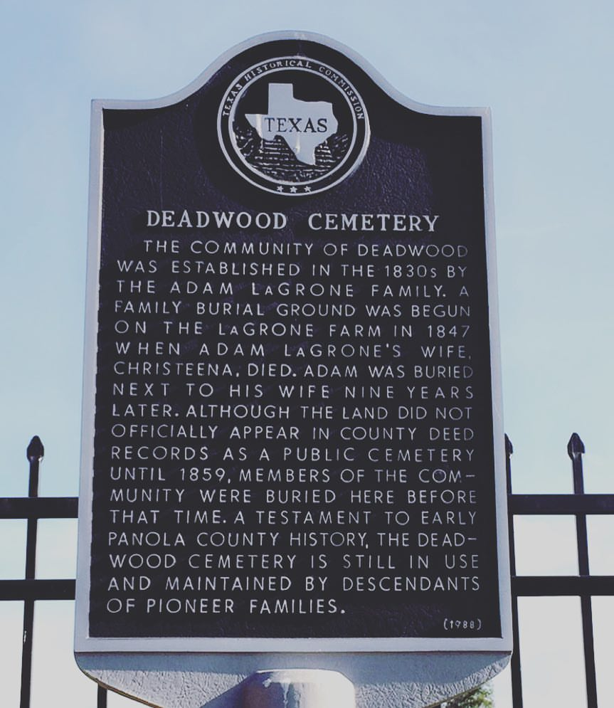 Deadwood Cemetery was created when Christeena LaGrone was buried there in 1847 on the family farm, not far from the family home place. Today, the county road near the cemetery is the home to many of her descendants.